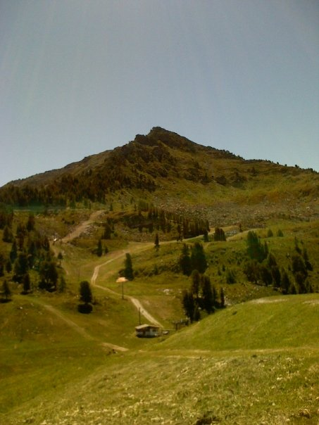 View of Dent de Nendaz from its base, taken from lake-side of Lac de Tracouet.